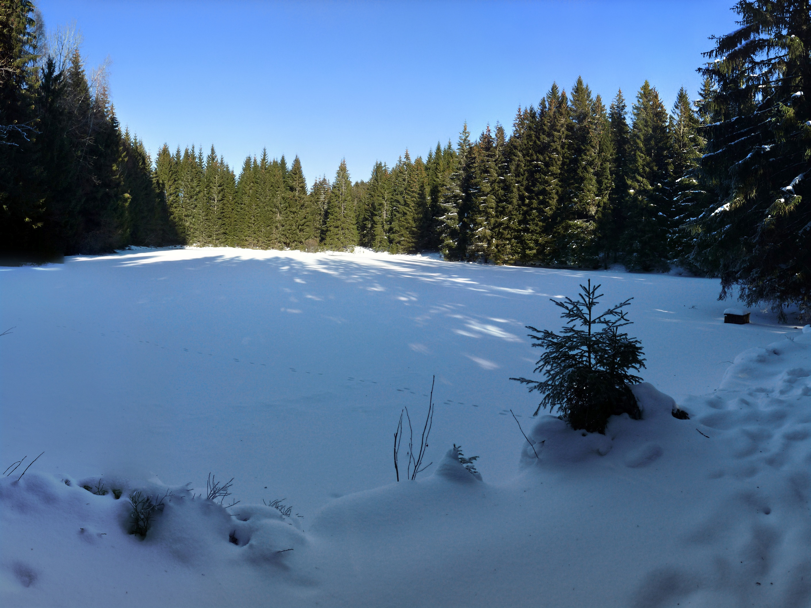 Deer Lake on the educational trail Medvědí stezka (Bear Trail), Prachatice District, South Bohemian Region, Czech Republic.